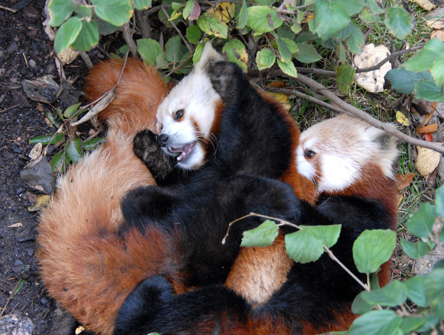 Red panda wrestling